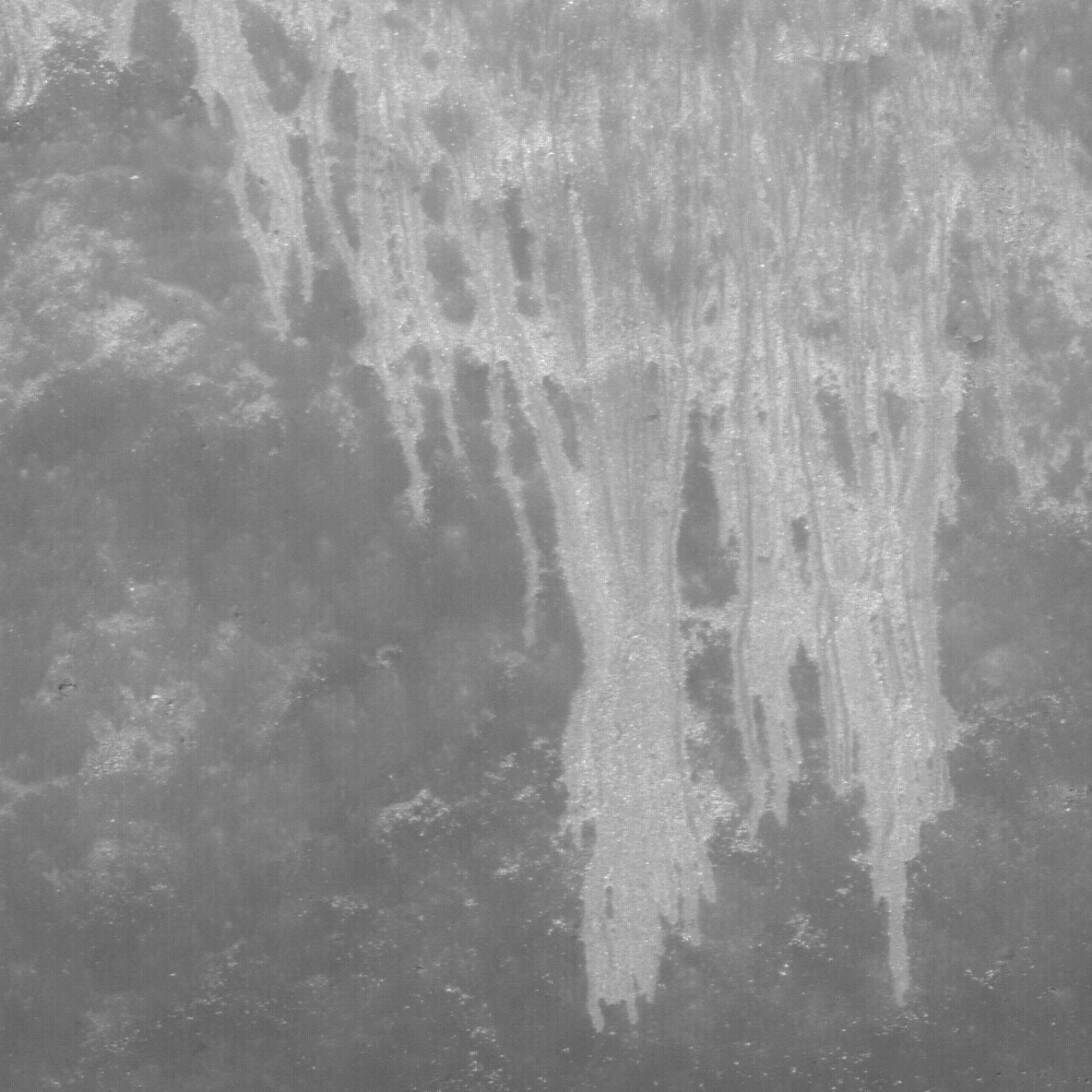 Landslide deposits seen on the steep interior slopes of Marius crater, image is 510 meters wide [NASA/GSFC/Arizona State University].